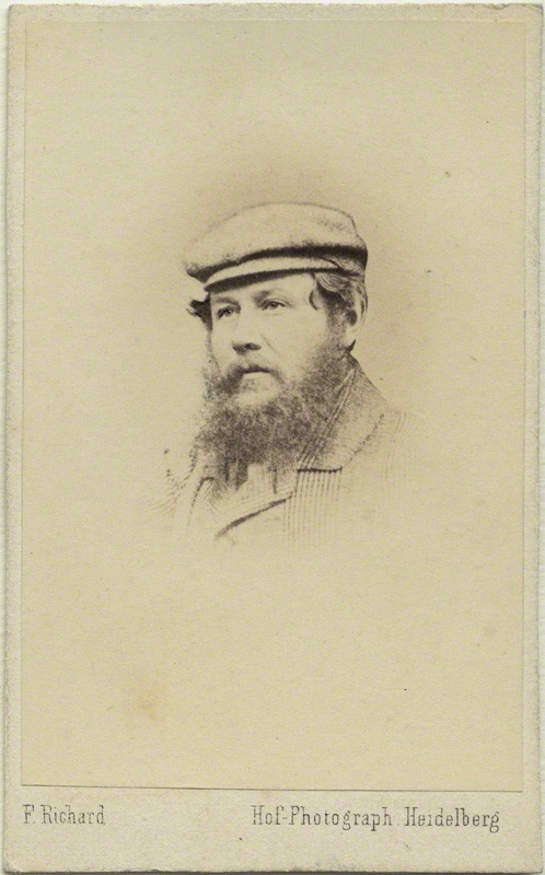 by Franz Richard, albumen carte-de-visite, 1860s